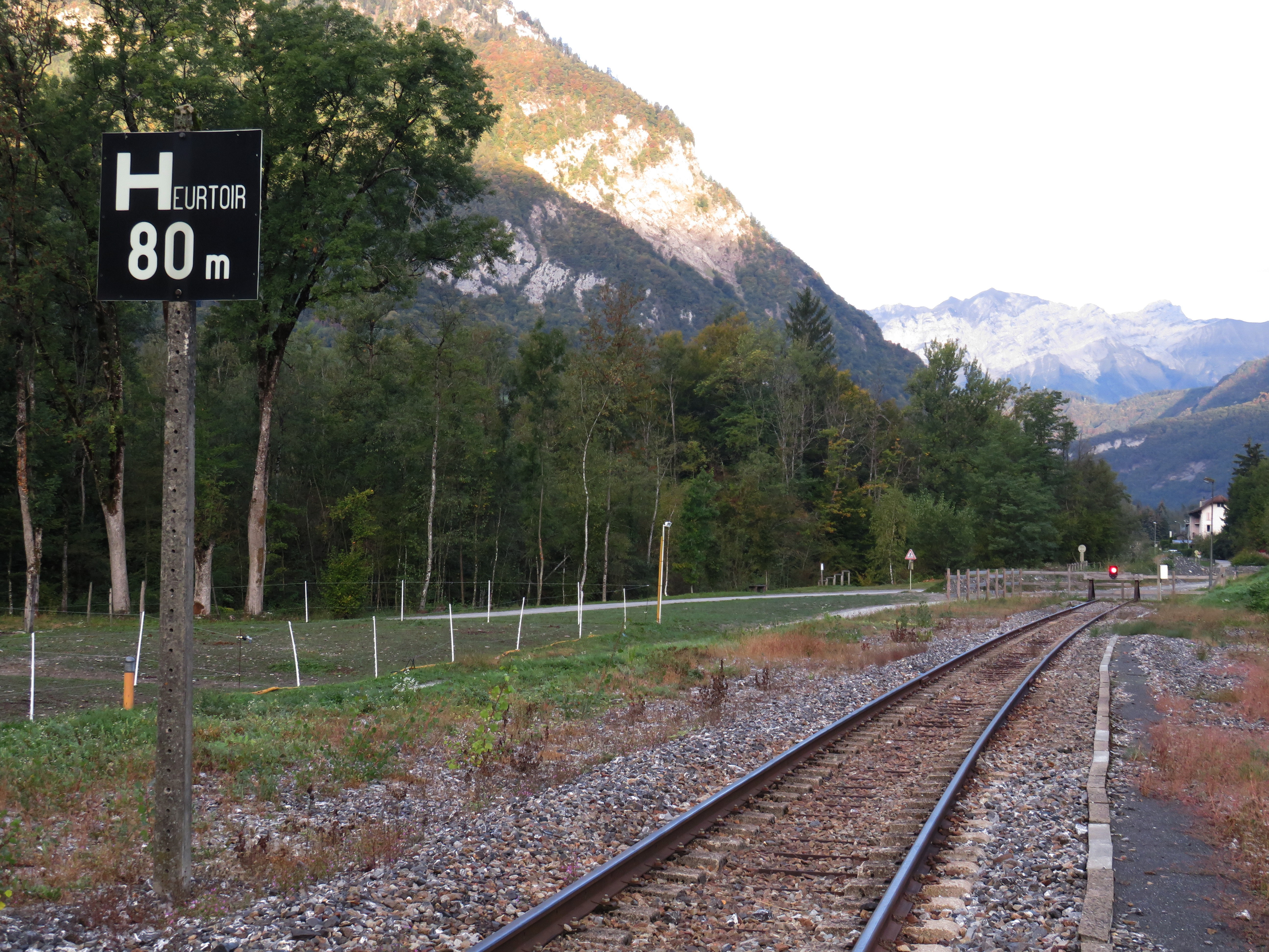 The sign announcing the end of the railway line from Annecy to Albertville and the buffer stop, situated hundreds meters after the former railway station of Ugine (Savoie, France) on October 3, 2018.